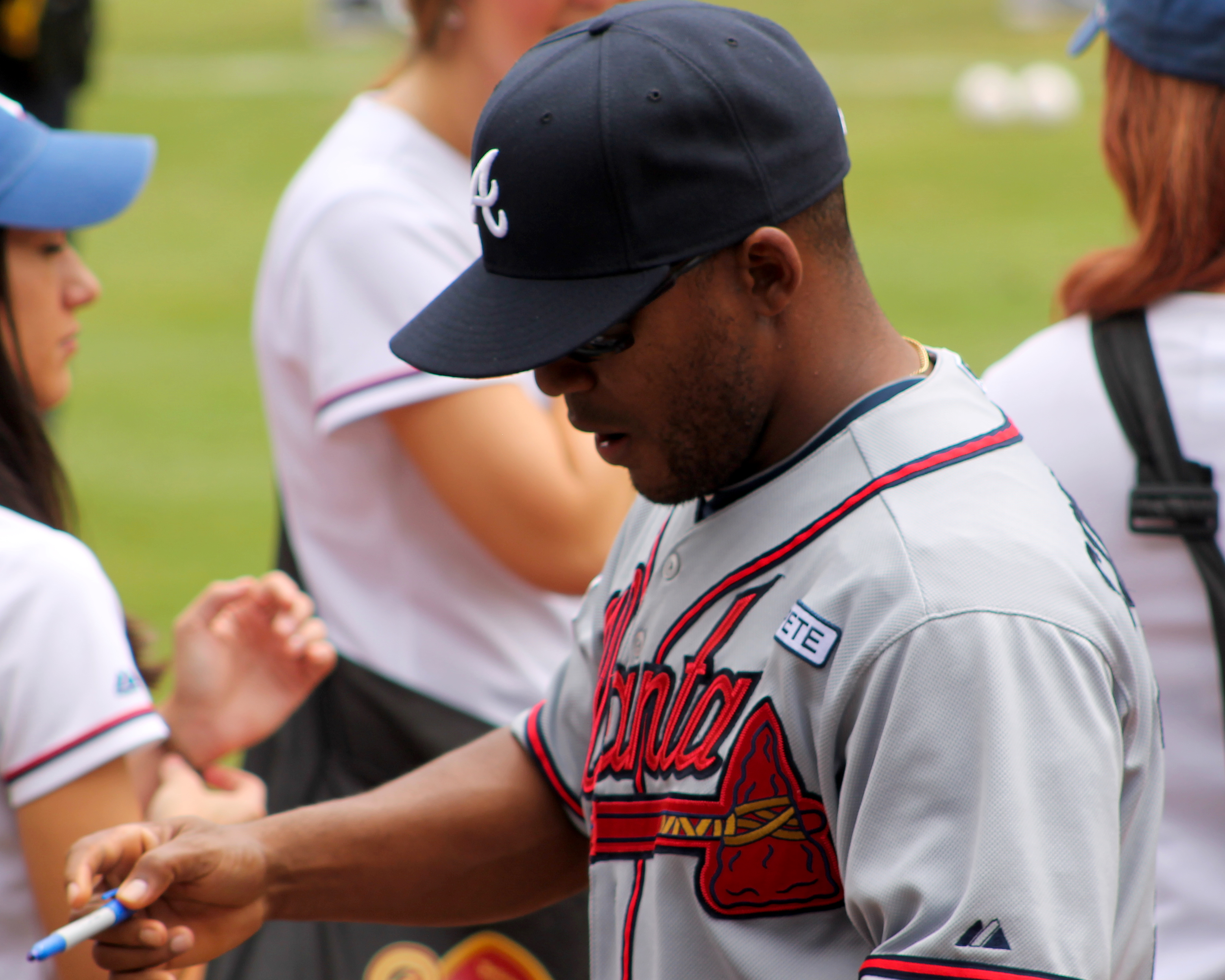 Professional baseball player José Constanza signs autographs before a game in Texas in September 2014.